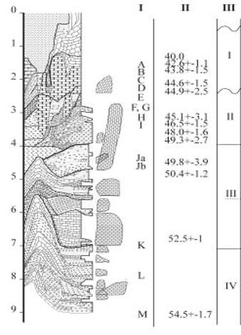 Es el perfil de la Coveta Nord, del yacimiento arqueológico Abric Romaní, en la localidad de Capellades (Barcelona).